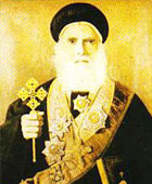 112th Pope & Patriarch of Alexandria